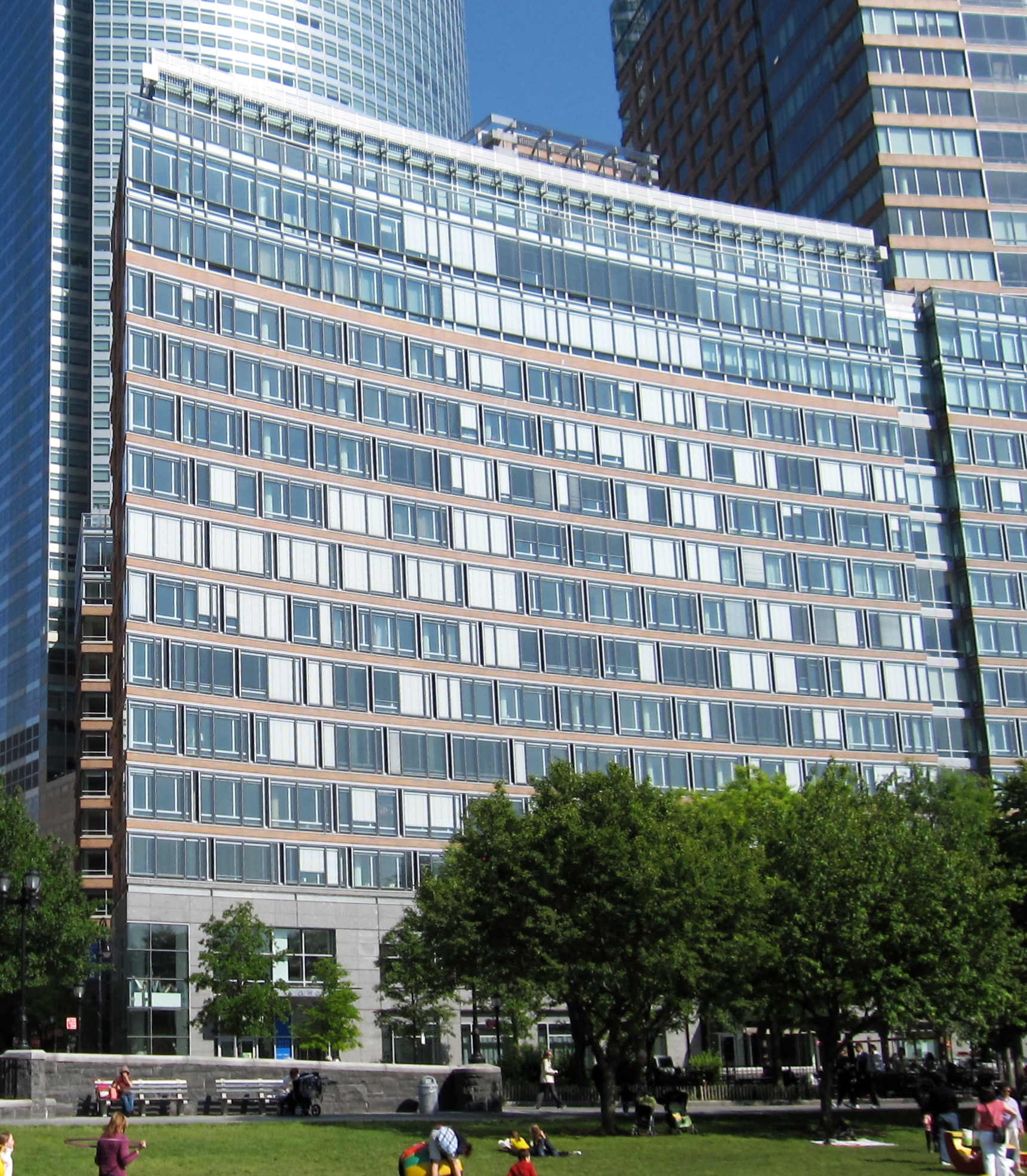 Poets House at 10 River Terrace in Battery Park City, Manhattan, New York City